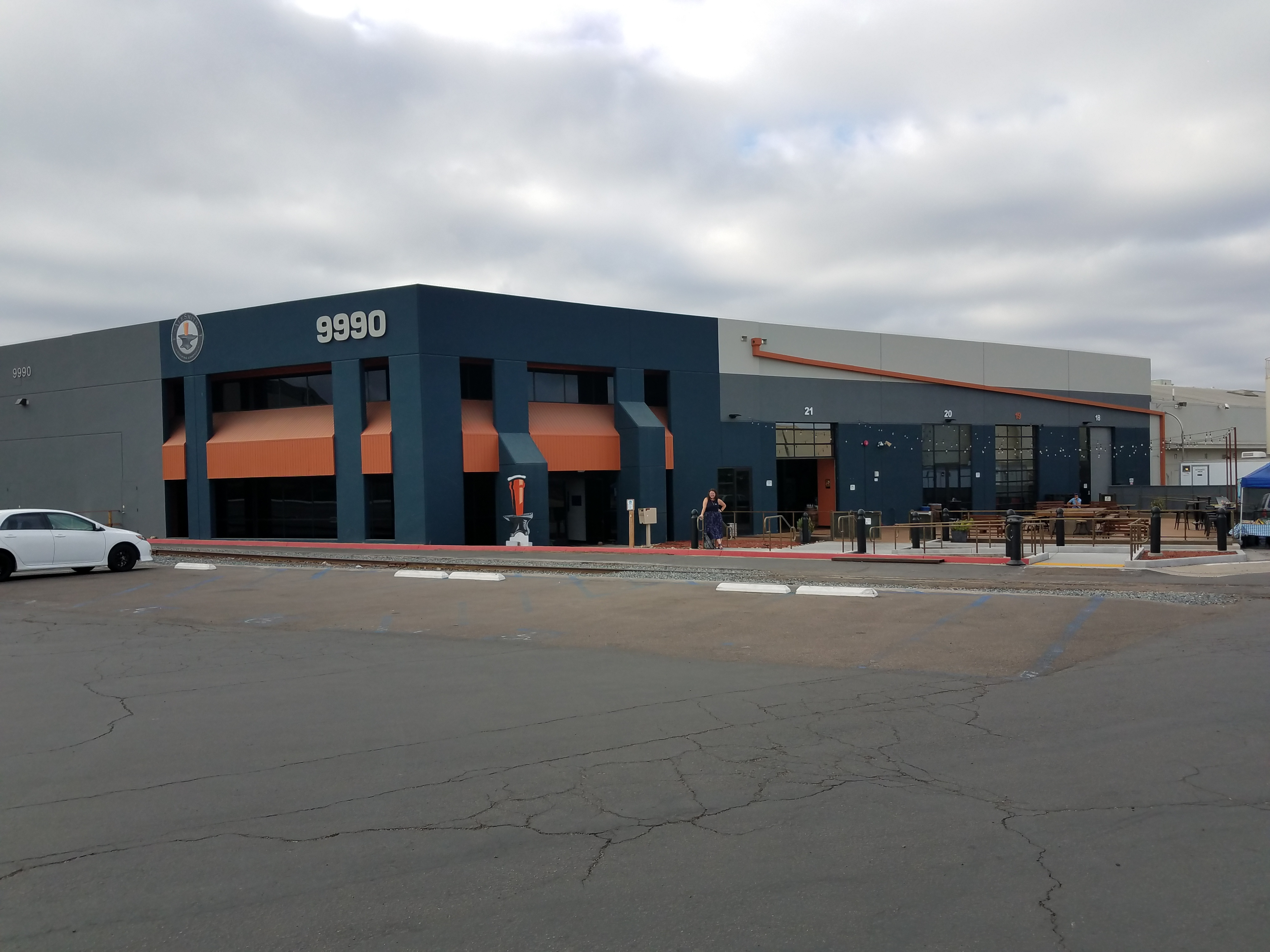 Exterior photo of Alesmith's Mirarmar production facility and beer garden.